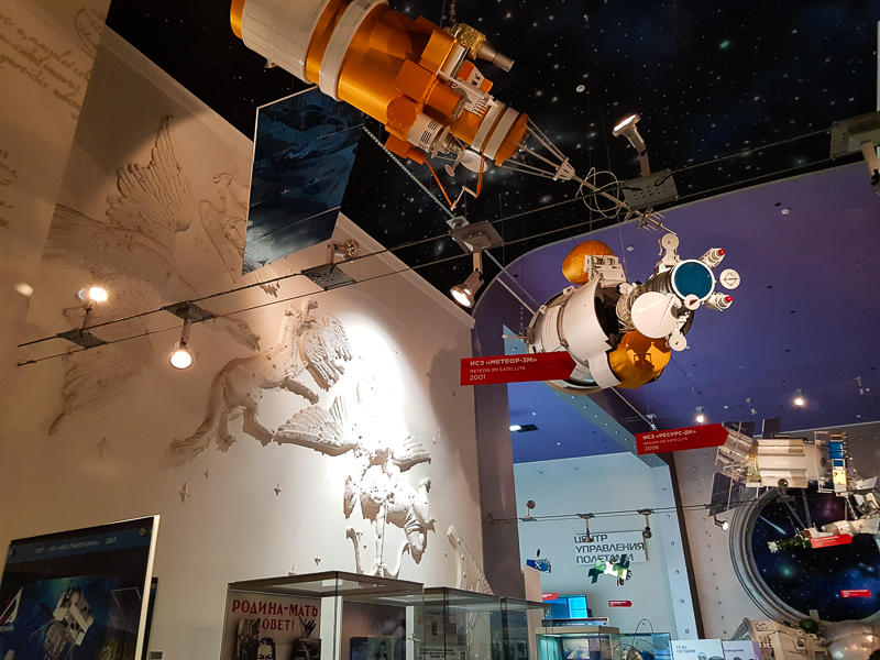 Раздел «Космос — народному хозяйству» (также «Космонавтика — человечеству») в Музее космонавтики на ВДНХ. На снимке видны макеты искусственных спутников Земли, в правом нижнем углу - часть мини-ЦУП музея.